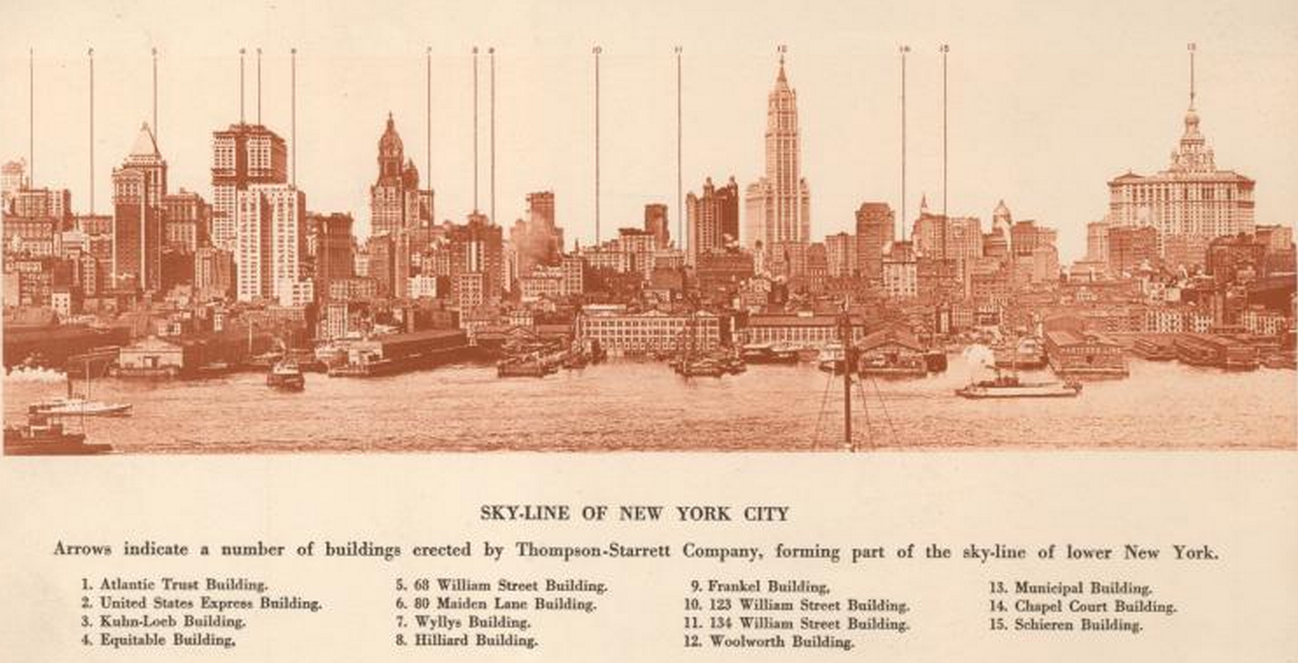 Image published in the article, "Louis J. Horowitz, Master Builder: The Immigrant Boy Who Helped Build New York's Sky Line". The Magazine of Wall Street. January 24, 1920. pp. 351-353.